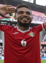 Australia & Jordan Group B match, 2019 AFC Asian Cup